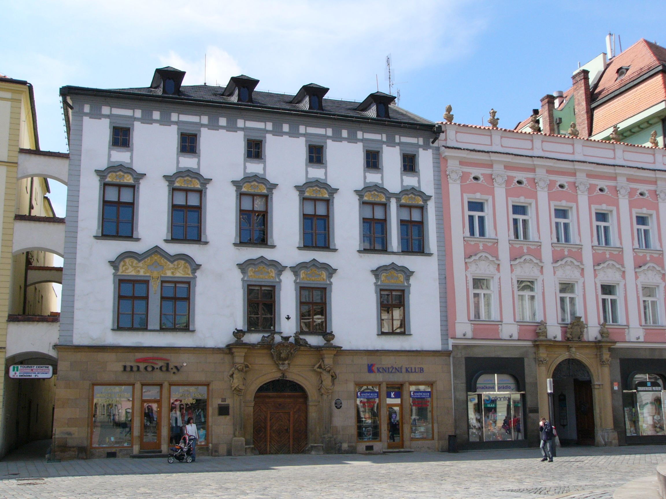 Petráš palace in Olomouc (Czech Republic).